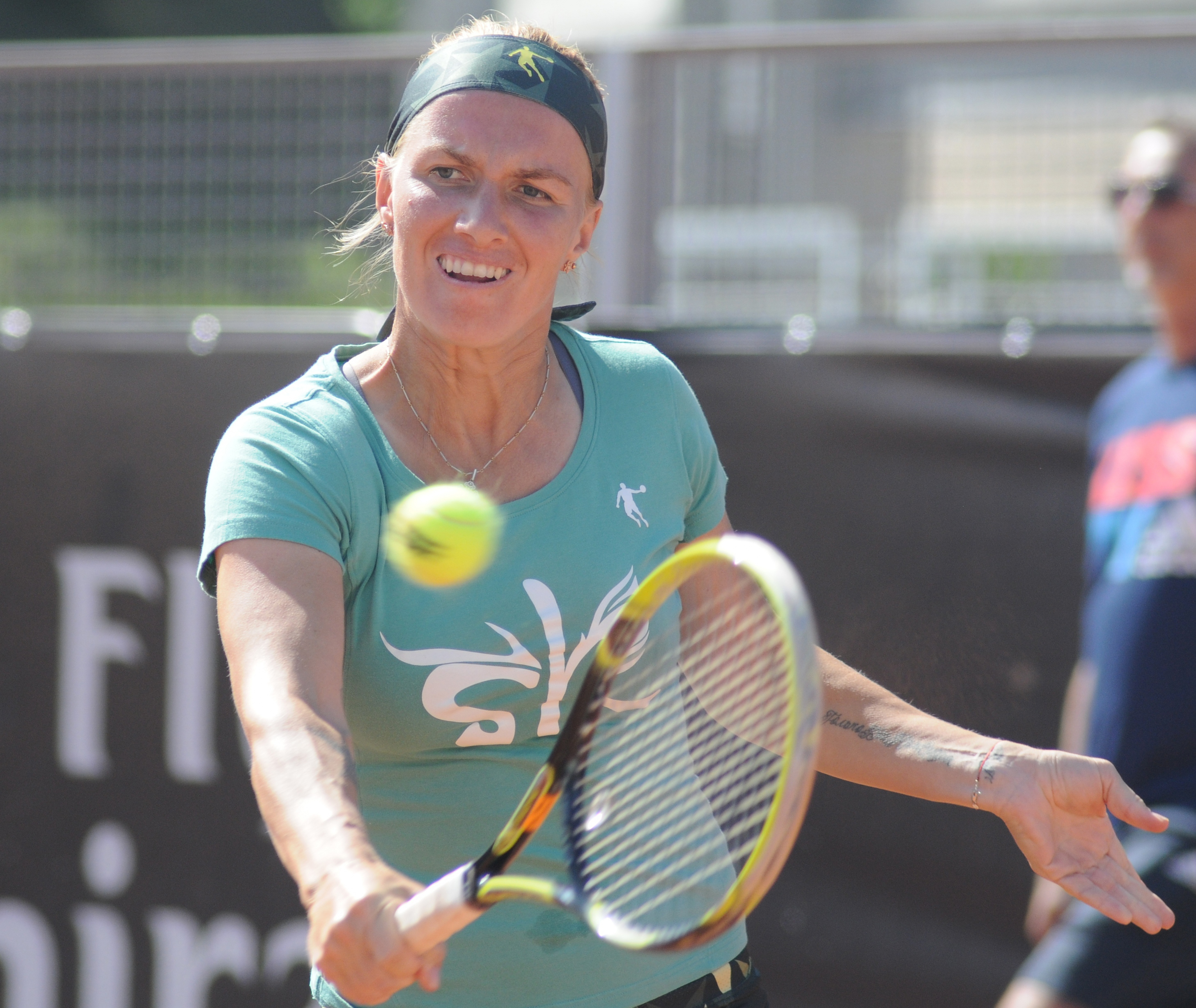 Svetlana Kuznetsova at the 2014 Internazionali BNL d'Italia aka the Rome Masters